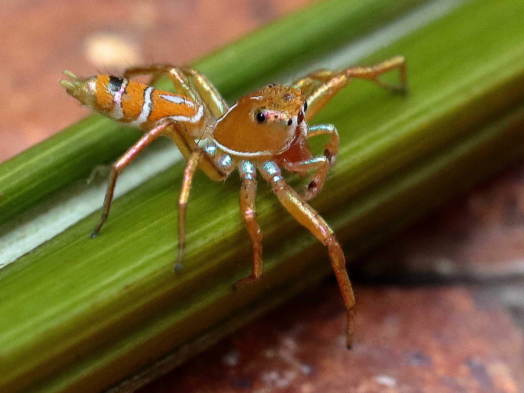 A beautiful metallic gold, yellow, black and light blue Jumping Spider found in PNG, Australia and Micronesia. Its favourite food is the Green Tree Ant. This one is 6 mm body length.